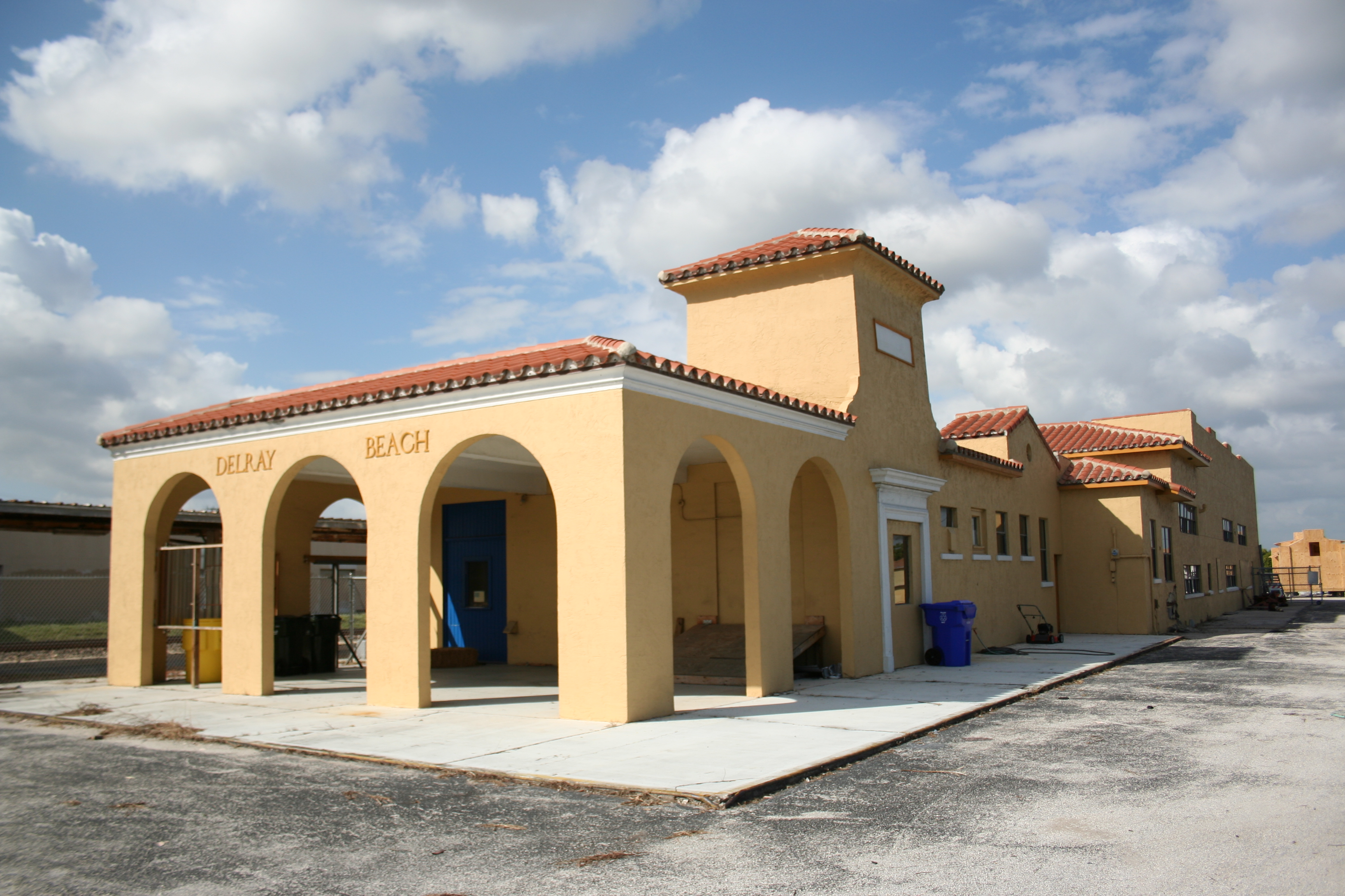 Southeastern view of the Delray Beach Seaboard Air Line Railway Station, constructed in 1926 and now on the National Register of Historic Places